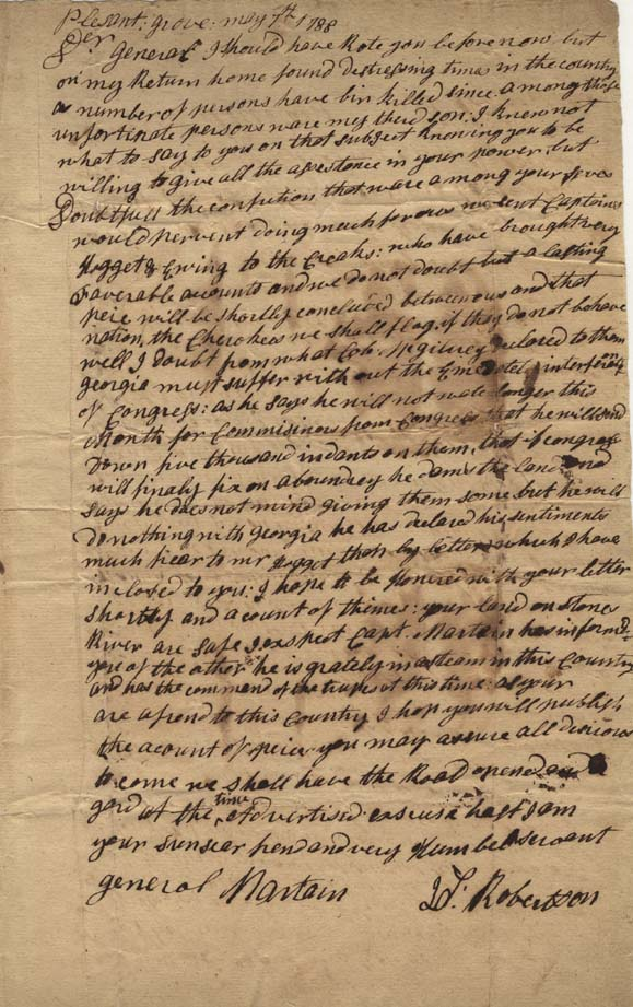 Letter from James L. Robertson, Pleasant Grove, Tennessee, to General Joseph Martin, concerning the Cherokee Nation. Courtesy of Tennessee Documentary History